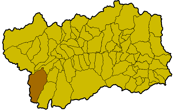 Location map of Valgrisenche within Aosta Valley.